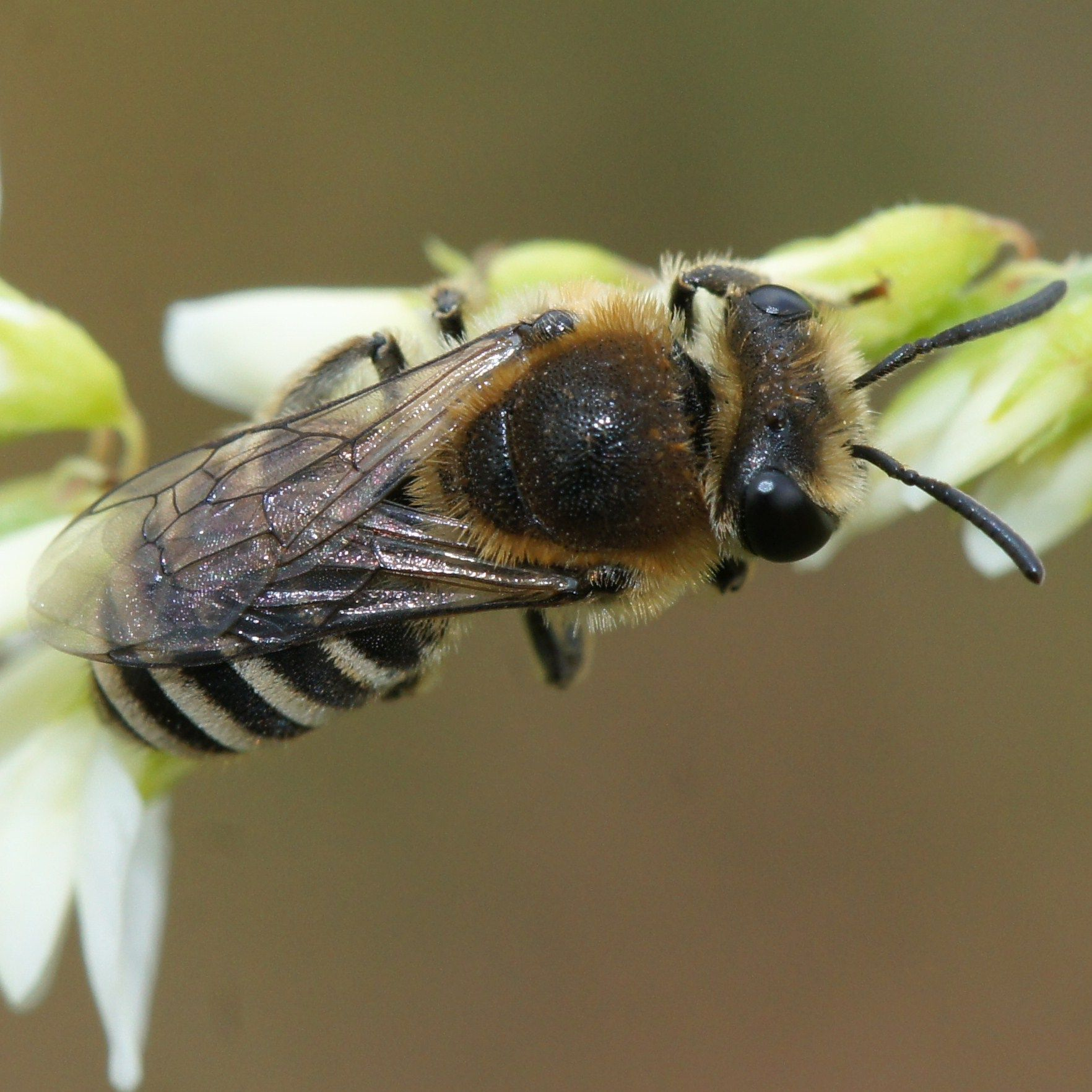 Colletes marginatus (female). Picture from Scania, Sweden.